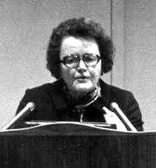 Ruth Patrick in 1976